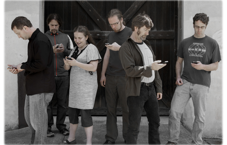 miRthkon lineup: late 2011-present. (L-R) Matthew Guggemos, Travis Andrews, Carolyn Walter, Wally Scharold, Jamison Smeltz, Matt Lebofsky.